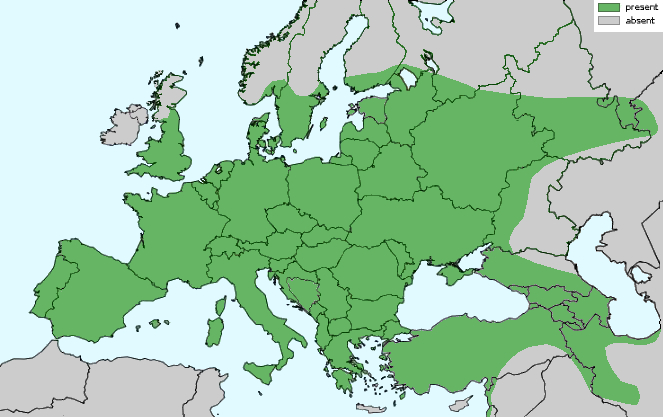 Rasprostranjenje vrste u Evropi (Fauna Europaea)